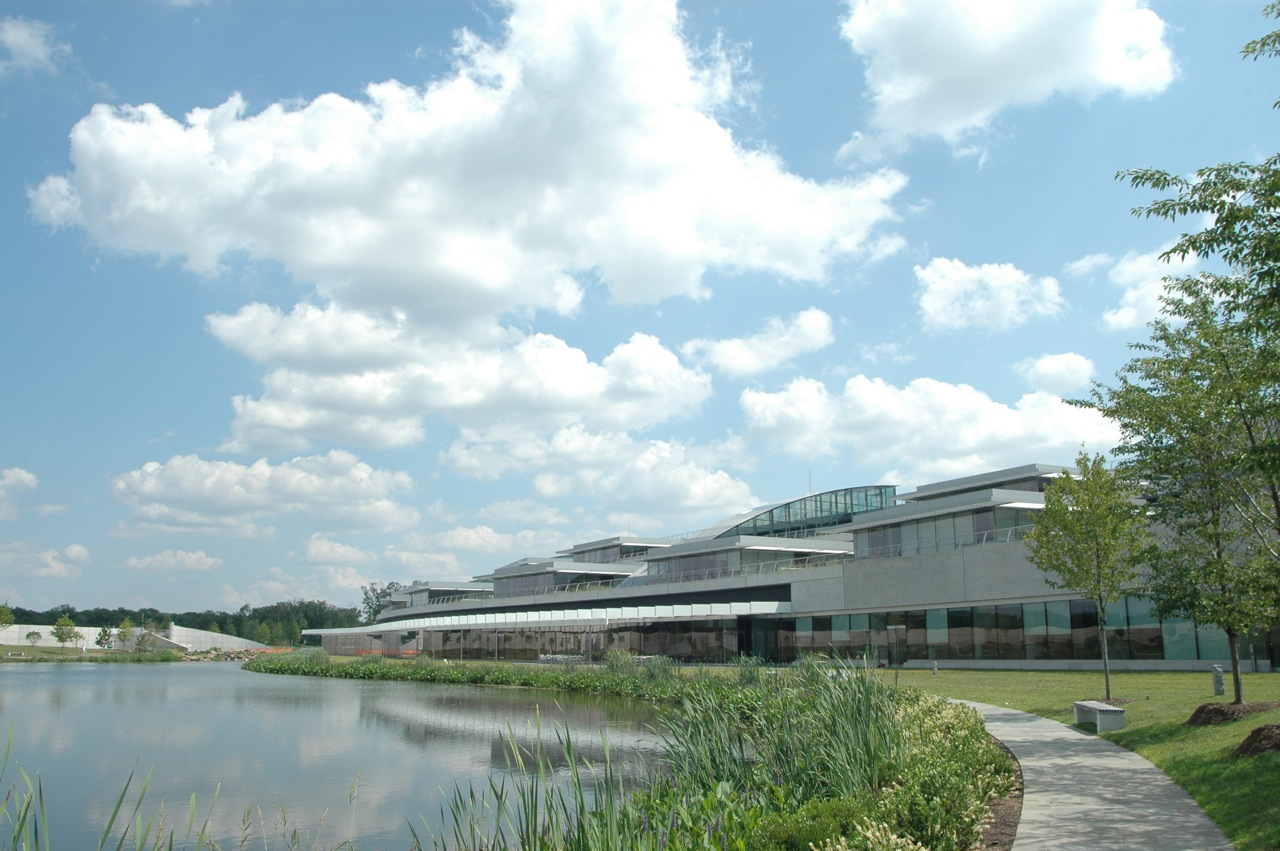 Landscape Building at Janelia Farm Research Campus